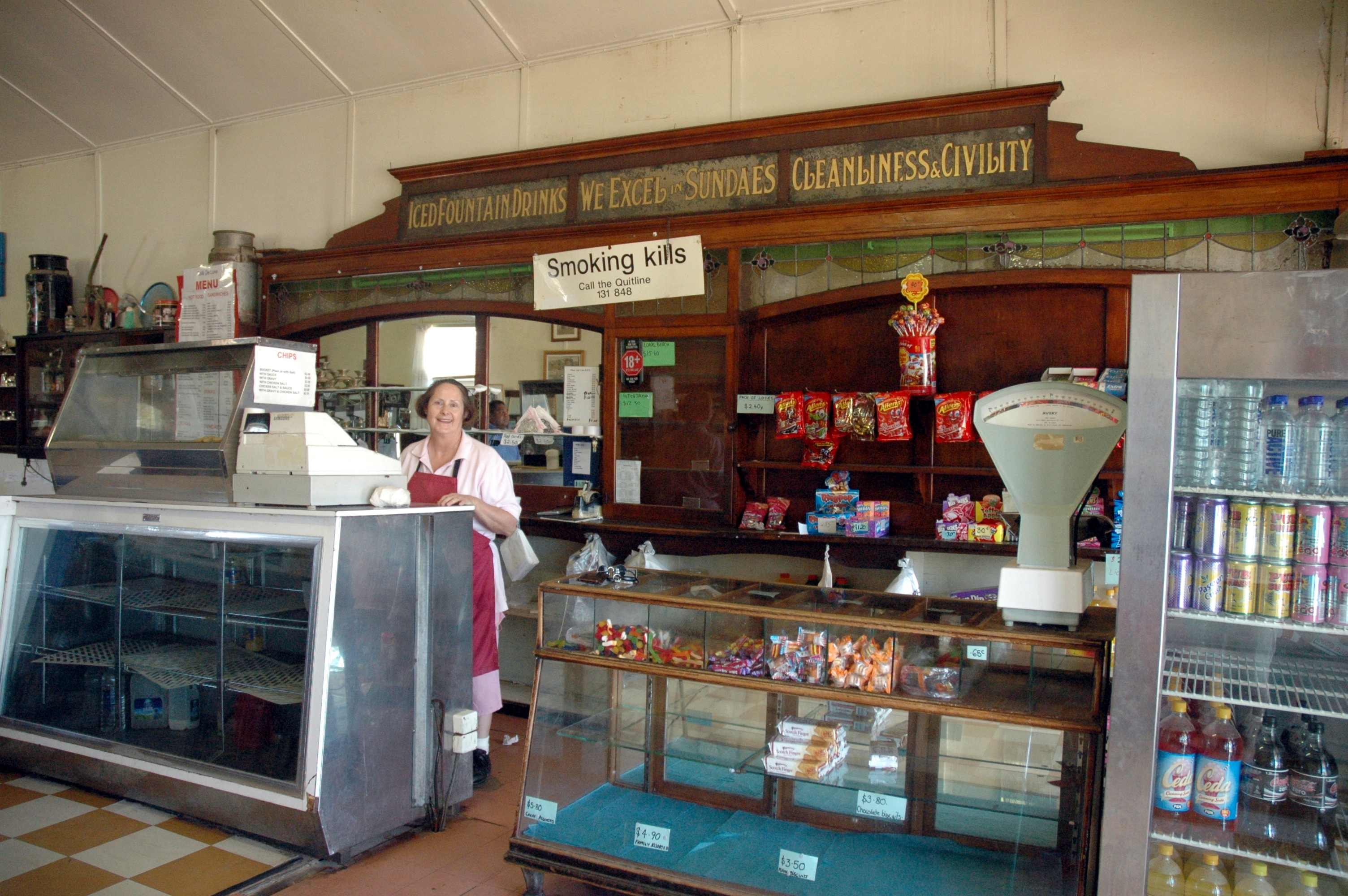 afe Deluxe is an authentic piece of Brewarrina history. Unimposing from the outside, it has an impressive, original period interior. In this photo the proprietor poses proudly behind the counter.